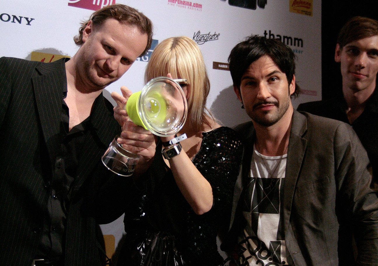 Bunny Lake at the Amadeus Austrian Music Award (Museumsquartier, Vienna)